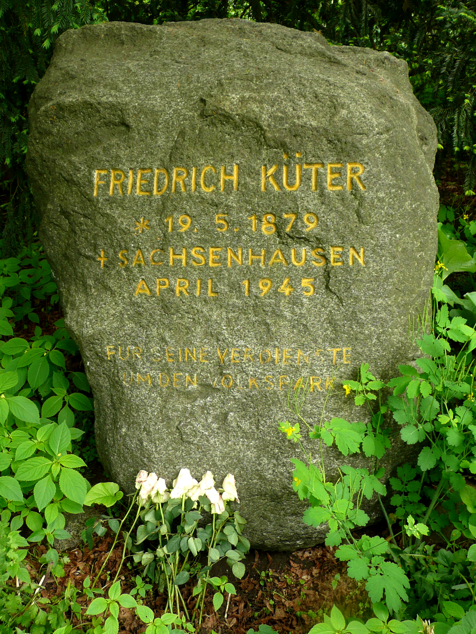 The memorial to Friedrich Küter in the public park mariendorf at the Eckernpfuhl